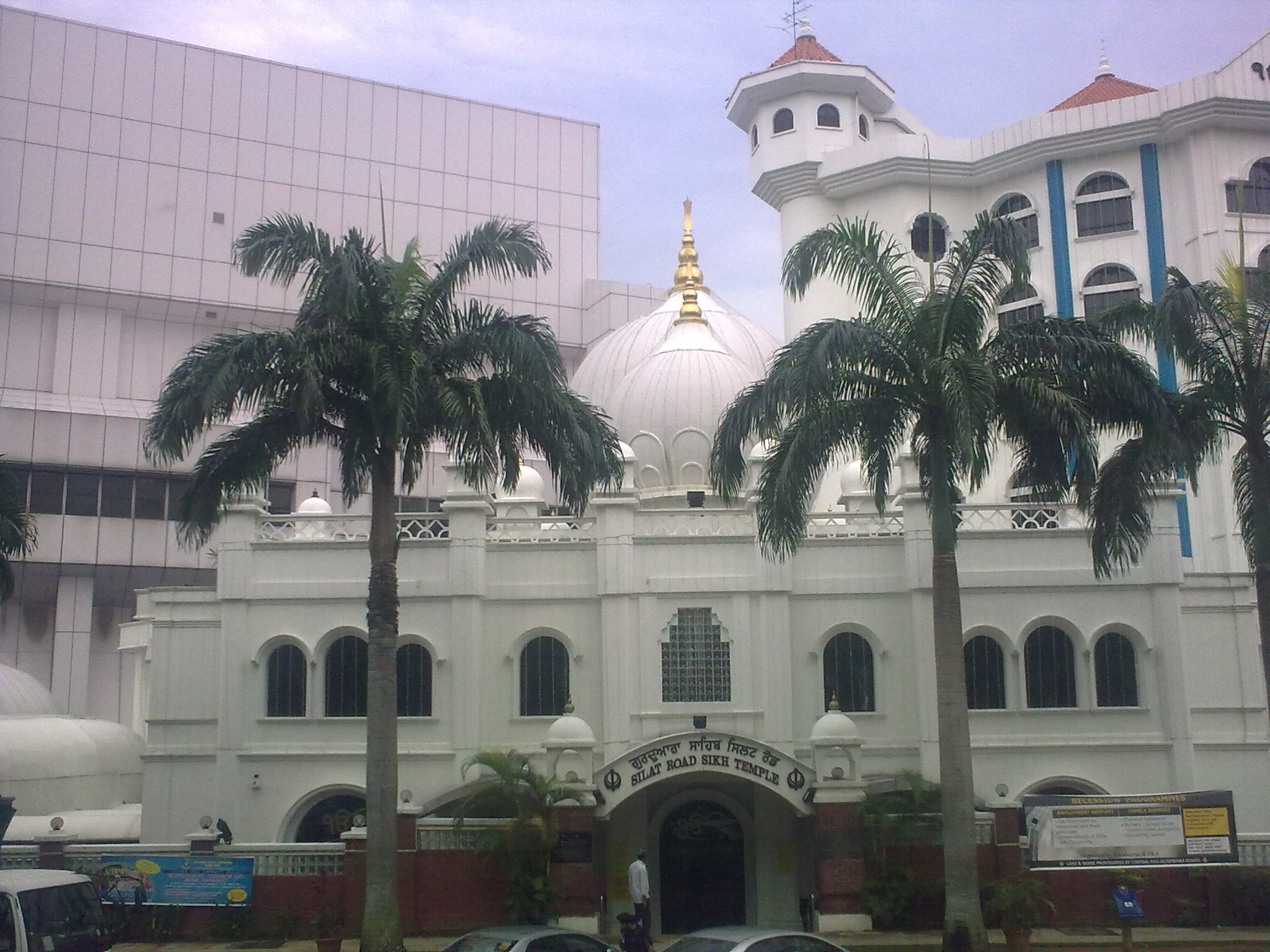 The Gurdwara Sahib Silat Road (Silat Road Sikh Temple) at 8 Jalan Bukit Merah, Singapore.